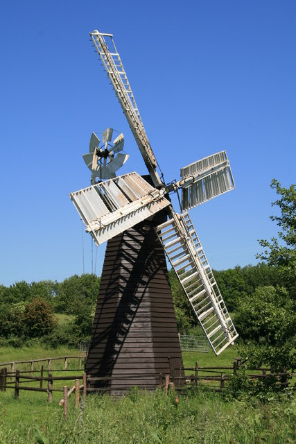 Photo of Eastbridge windpump as re-erected at Museum of East Anglian Life, Stowmarket